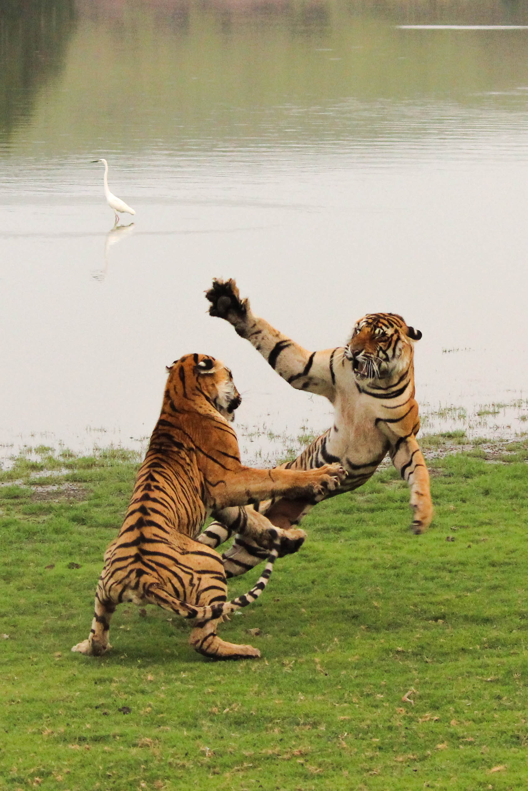 The two female cubs of T-19 in a playful mood at Ranthambore tiger reserve